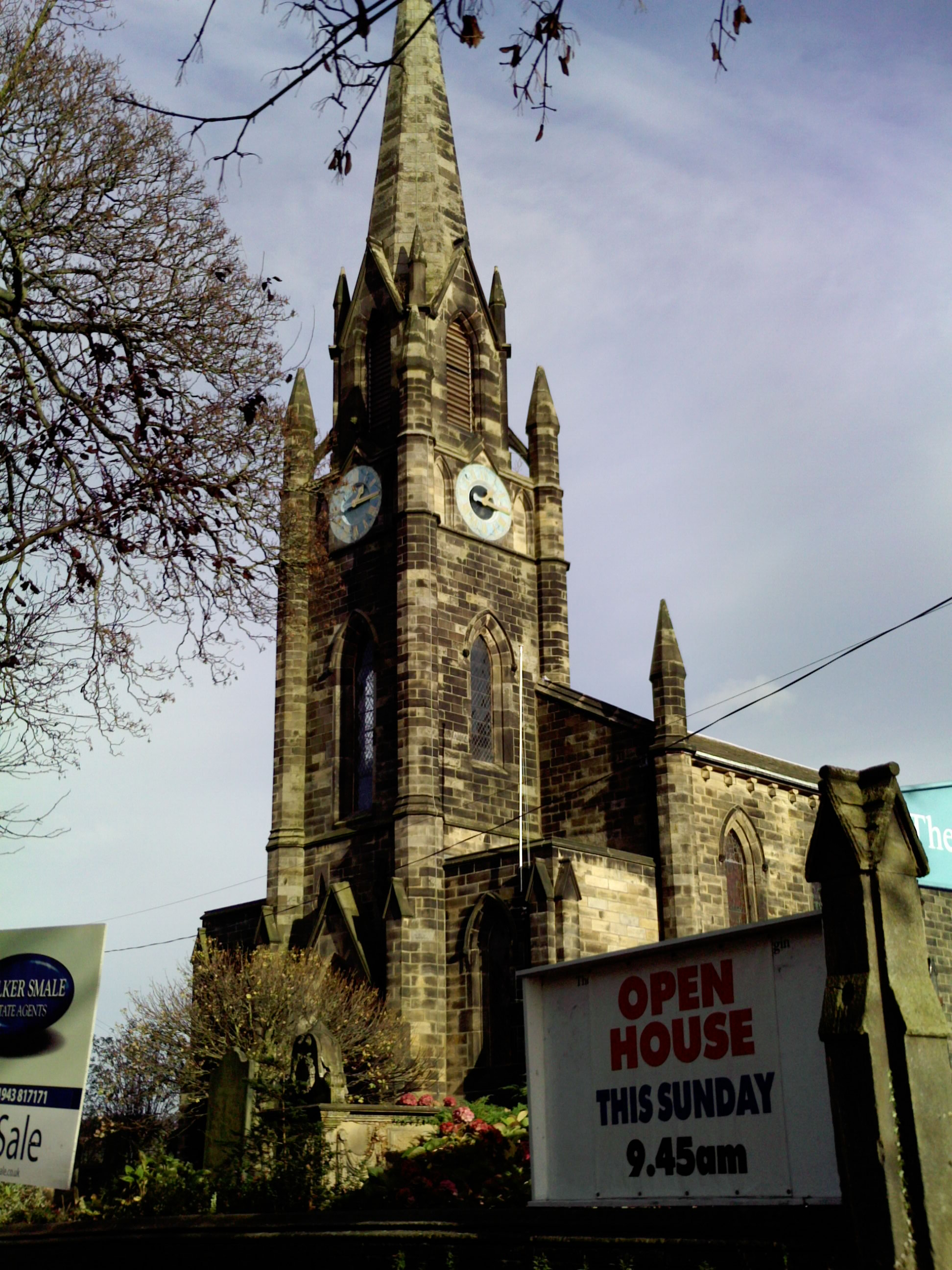 St Mary's parish church, Burley in Wharfedale, West Yorkshire, seen from the southwest on a Saturday in November 2009.